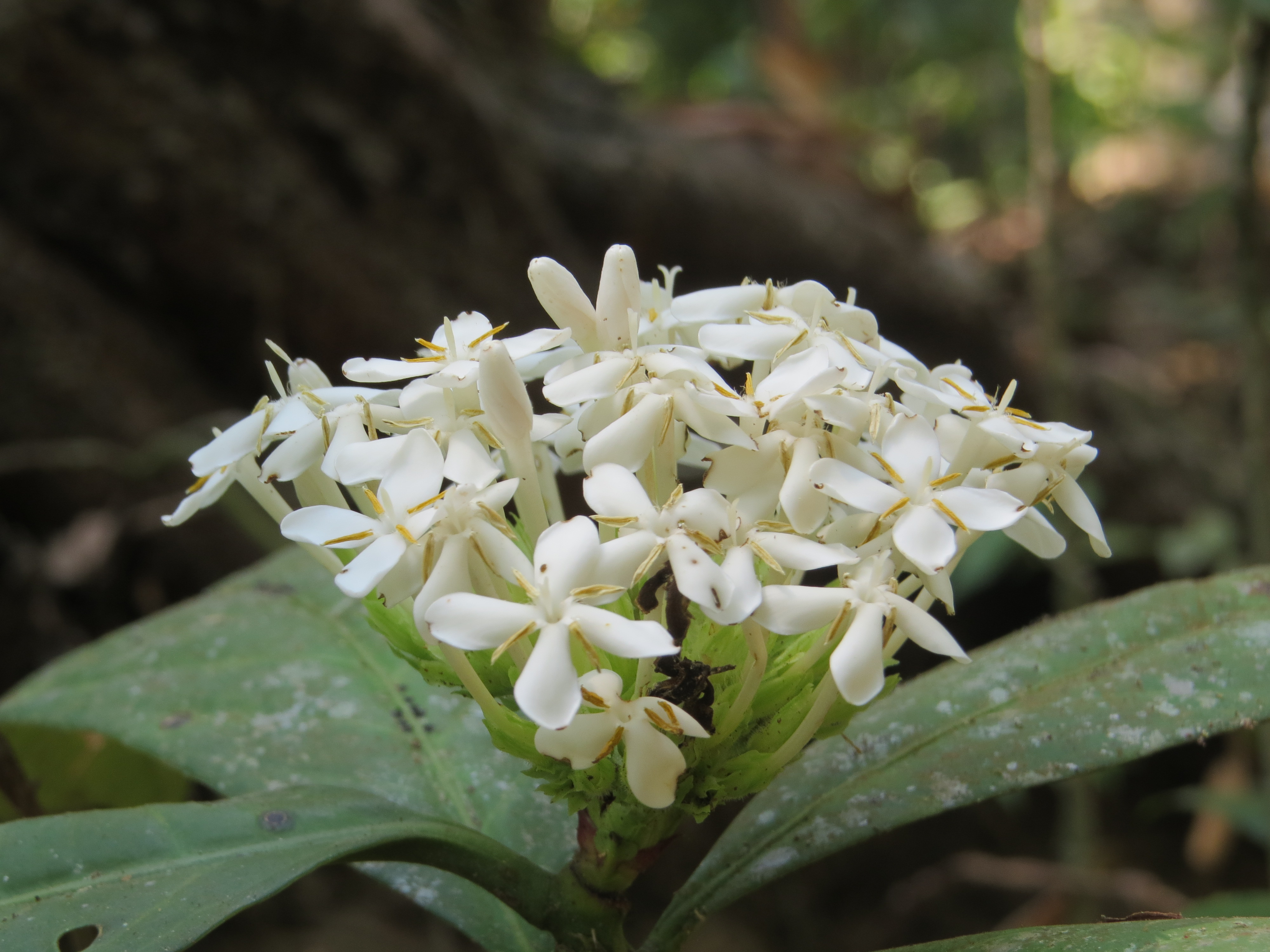 Photos taken during the 2016 Bird Survey at Kottiyoor Wildlife Sanctuary